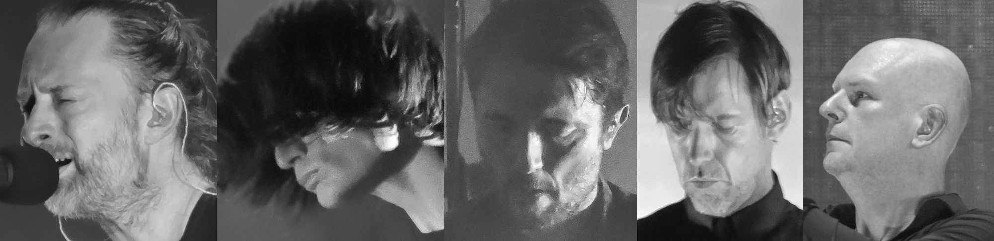 This is a photo montage compiled by me, 100cellsman. I do not own these photos and they are under the CC 2.0 license.